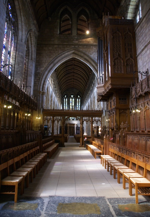 Dunblane Cathedral, Perth and Kinross, Scotland - choir, looking towards the nave